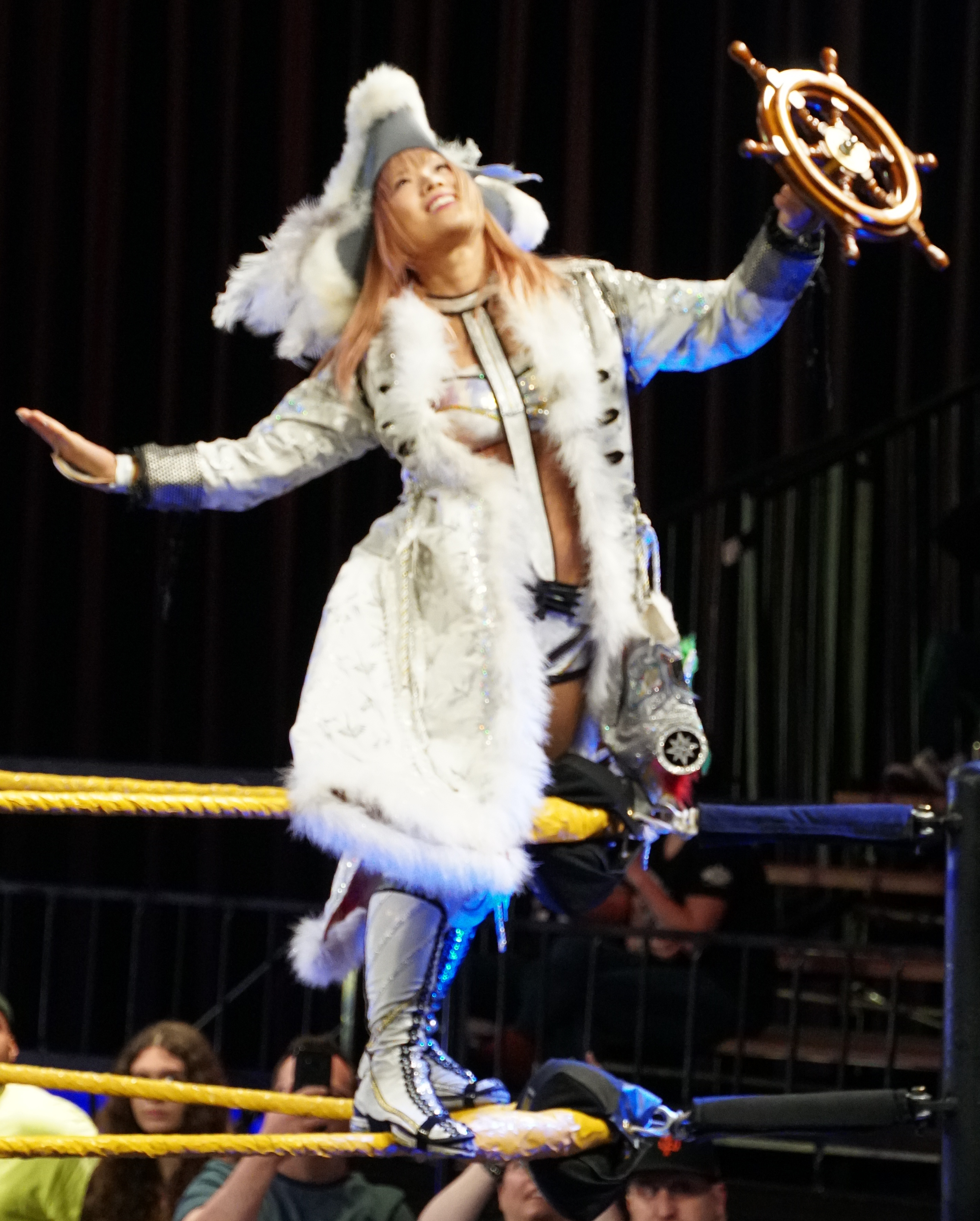 NOLA 2018 - WWE Axxess - Thursday - Kairi Sane Vs Bianca BelAir Kairi Sane def. Bianca BelAir ( Deux semaines a Nola pour la ville et pour WWE Wrestlemania XXXIV Two weeks Nola for the city and for WWE Wrestlemania XXXIV )